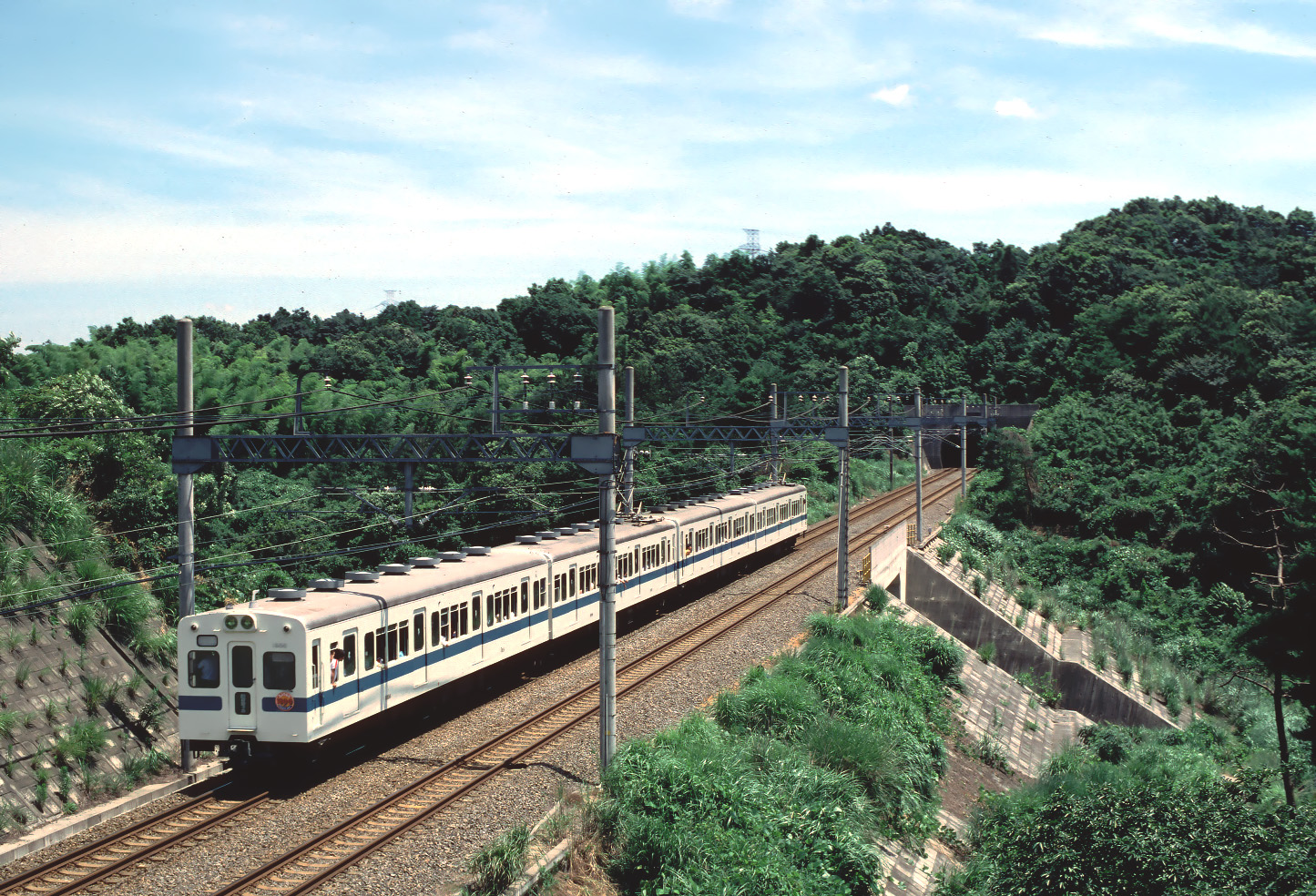 Odakyu Electric Railway 1800 series EMU on the last run seen between Odakyunagayama and Kurokawa in Tama line.